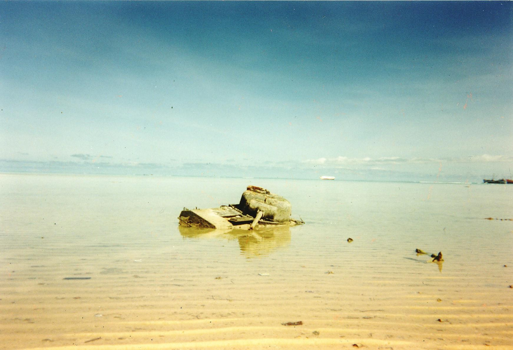 Image of a WWII tank rusting in the waters of Tarawa, Kiribati, taken by User:Roisterer who releases it under GDFL.